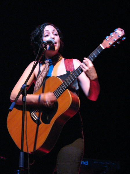 Monique Brumby performing in Canberra, Australia on 11 November 2005.